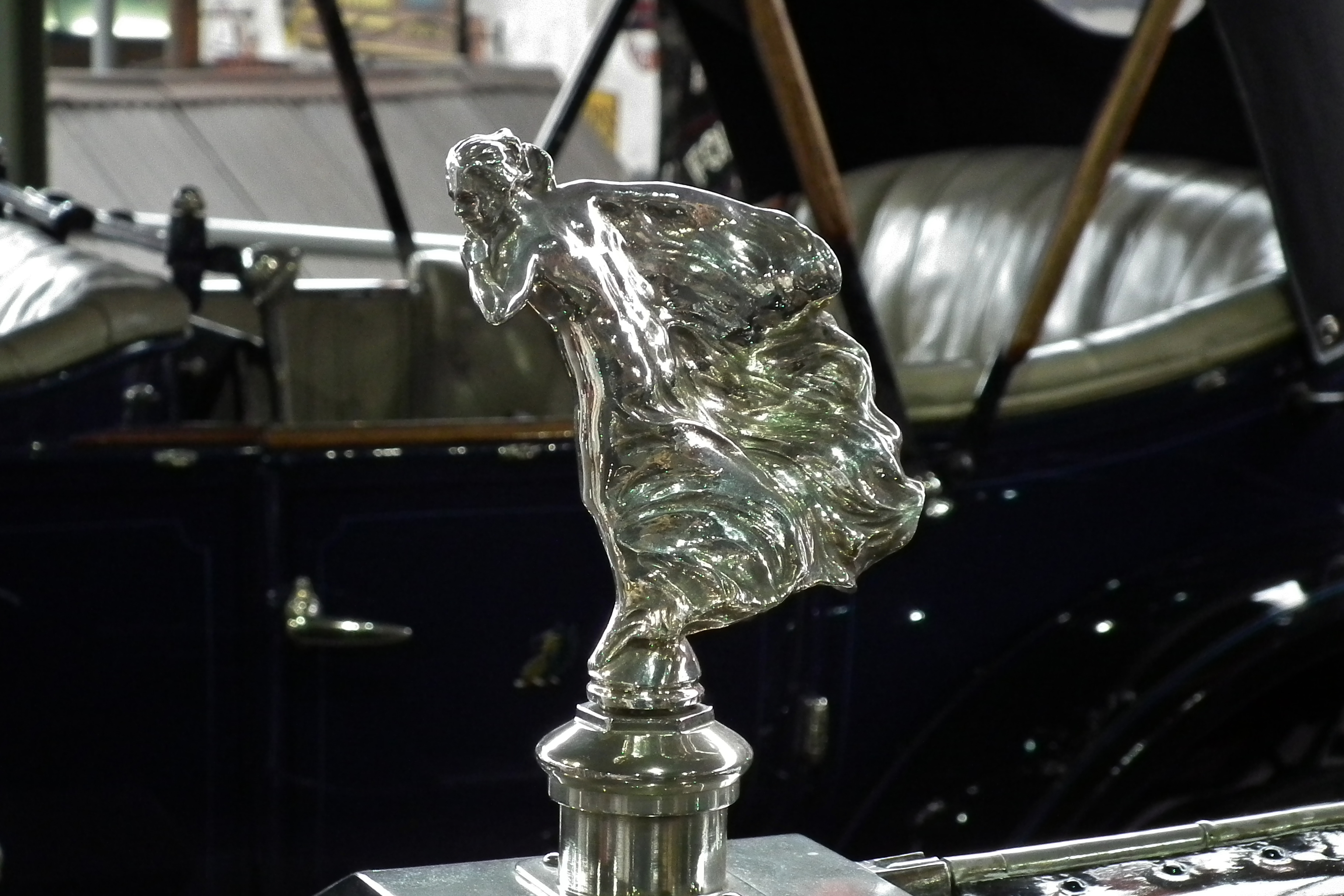 1925 Rolls-Royce Phantom I Whisper Mascot. Personal mascot for the 2nd Lord Montagu. Like the Spirit of Ecstacy it was modelled on Eleanor Thornton, Montagu's secretary and mistress, and designed by Charles Sykes. Taken at the National Motor Museum in Beaulieu, Hampshire, England.